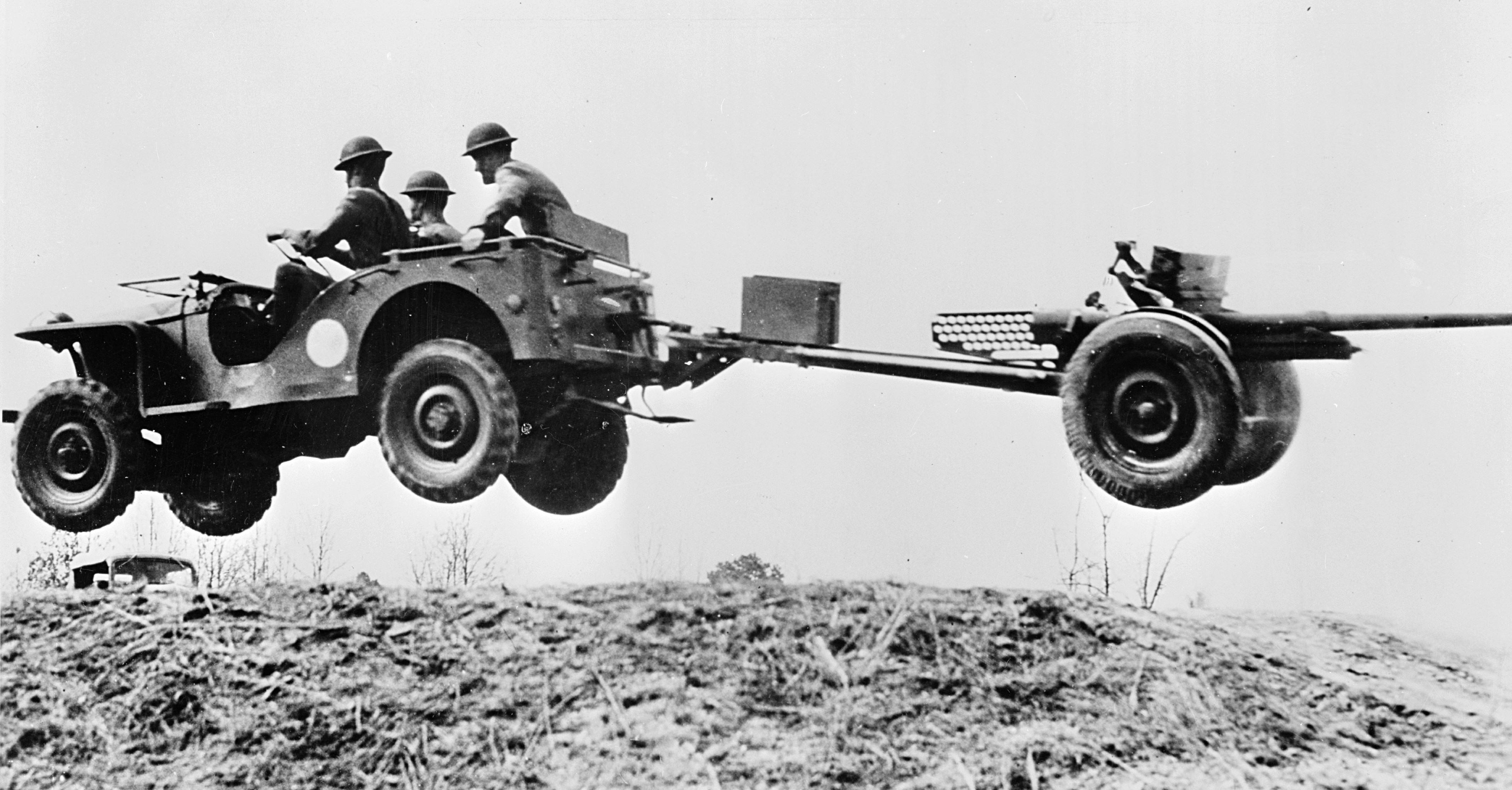 Bantam car in mid-air. This photo was taken in 1941 at New River, North Carolina during early testing of the Bantam jeep, the forerunner of the Willys MB and Ford GPW jeeps that became the World War II standard. This photo of the Bantam has all four wheels off the ground (six if you count the towed 37mm Antitank gun), the inspiration for the "Flying Jeep" poster and similar depictions.